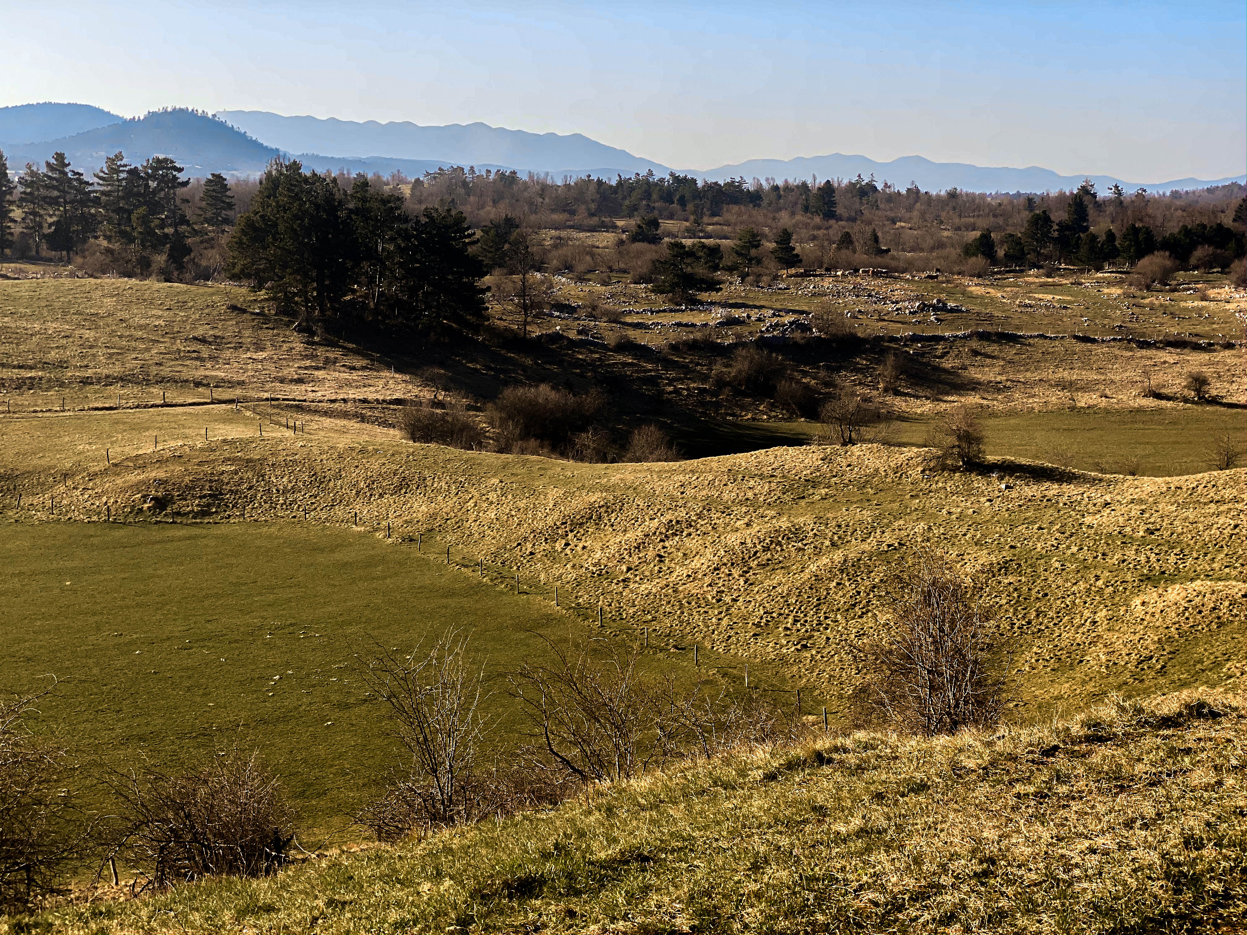 Veliki dol za Kalcem, spredaj vrtača, poplavljena Novembra 2000. V ozadju se lahko vidi Nanos